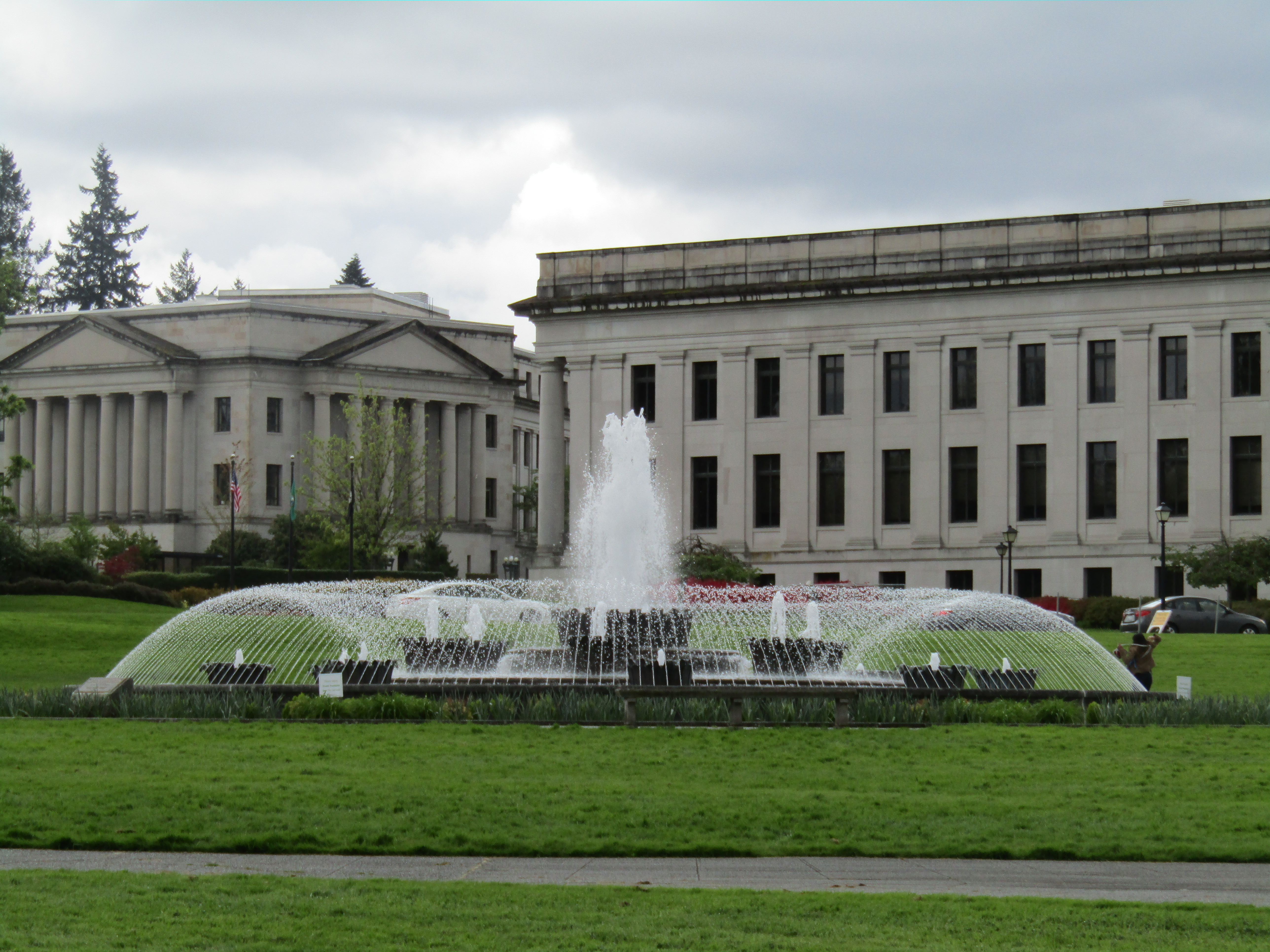 Washington State Capitol